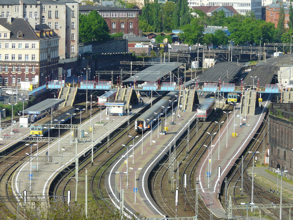 Main Train Station in Szczecin, Poland.